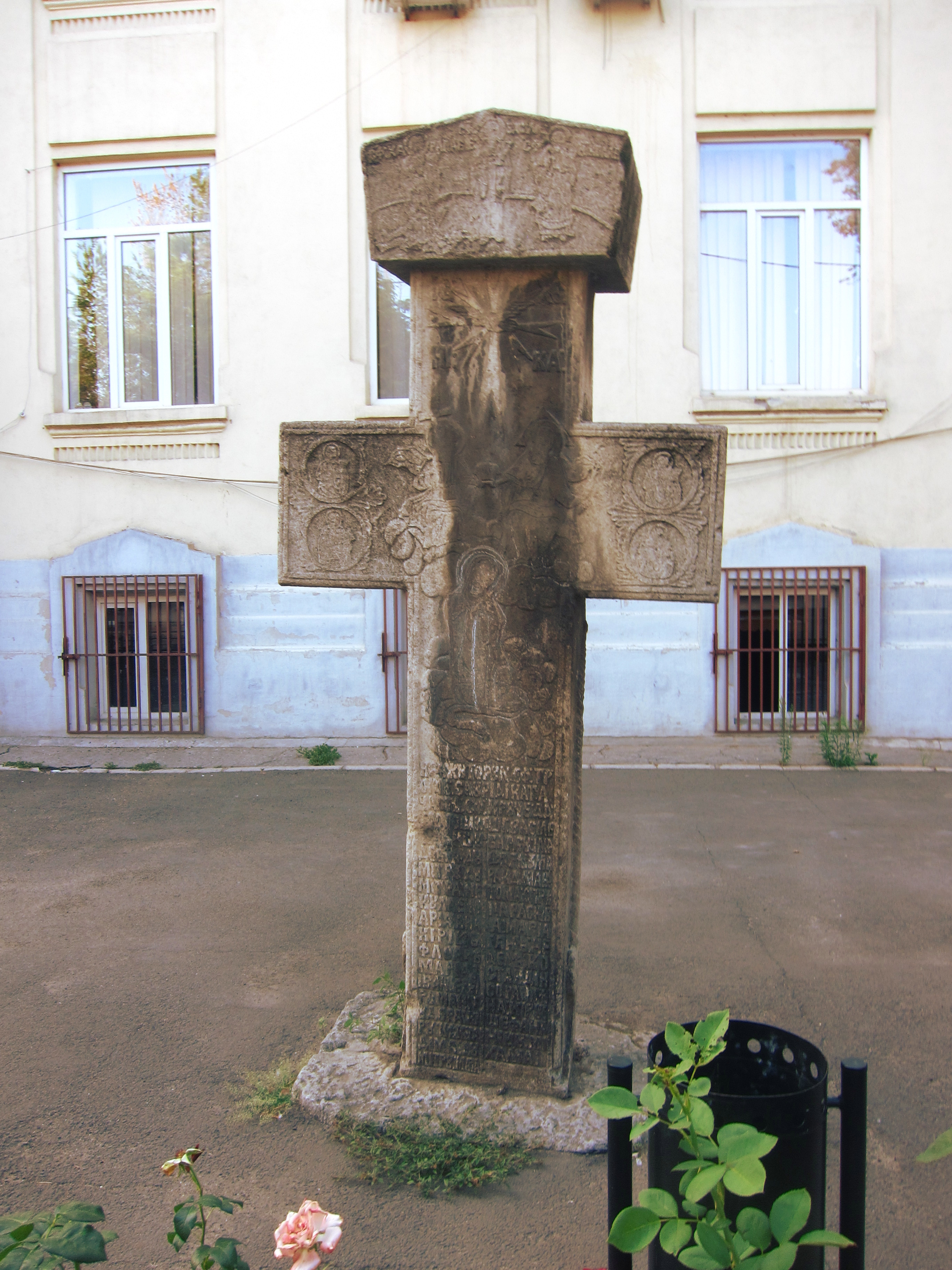 Stone cross in the yard of Ady Endre Hungarian high-school, Bucharest, RomaniaRomână: Crucea de piatră din curtea liceului maghiar Ady Endre din București, România